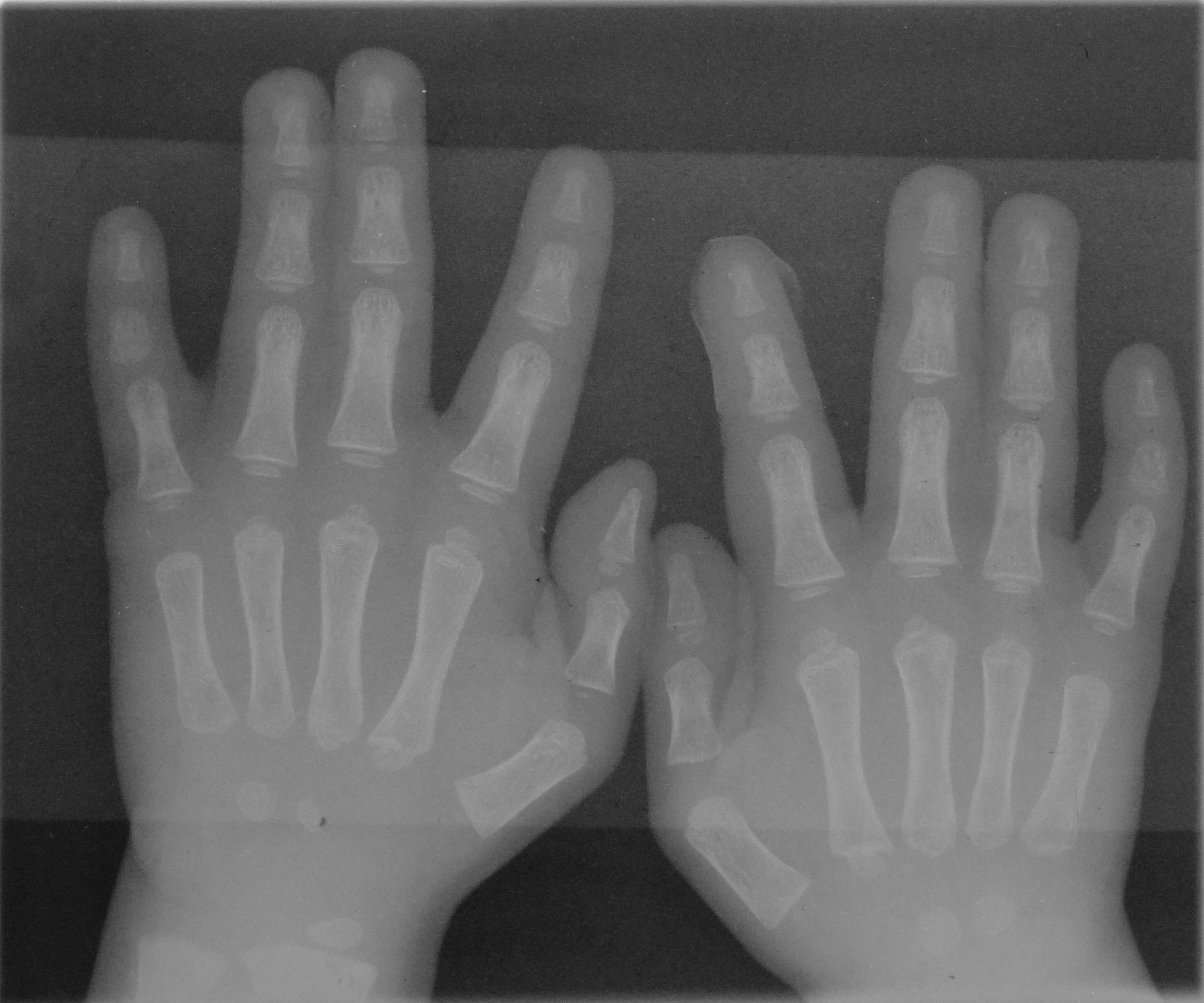 Radiograph, Type 1 Syndactyly, Left and Right Hands, DuPont Cronex Safety Film, 1987.